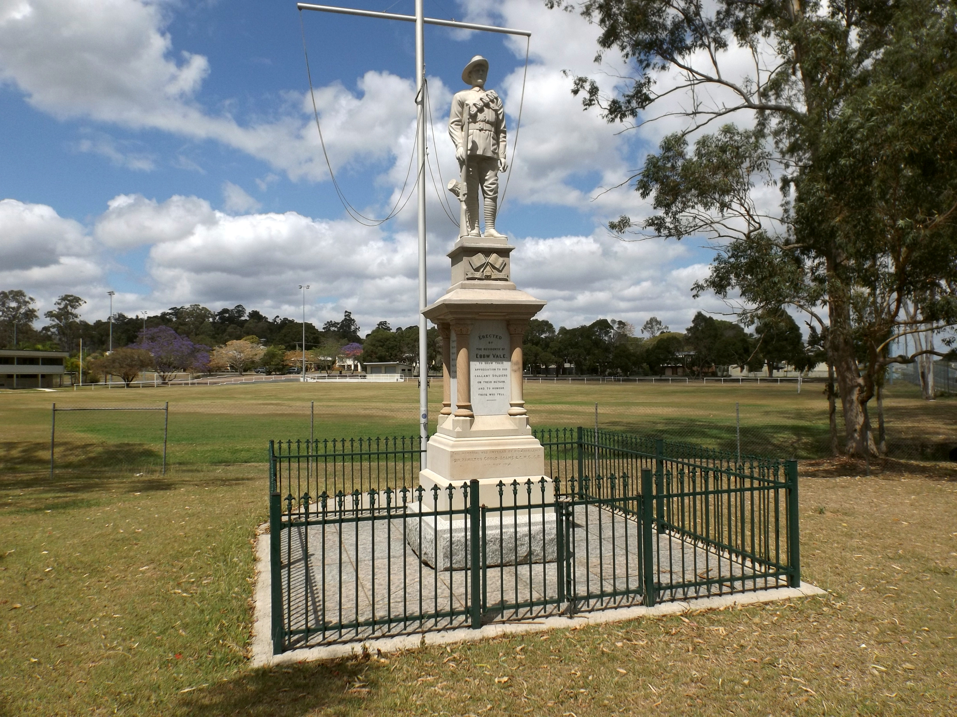 Photo of the digger war memorial at Ebbw Vale Memorial Park in Ebbw Vale, Ipswich, Queensland, Australia.